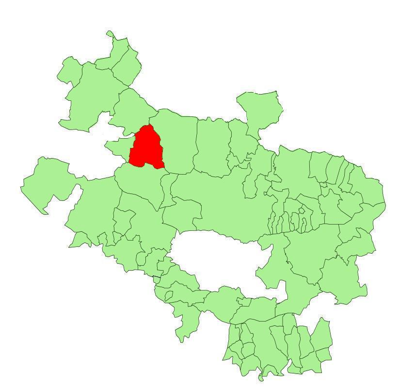 Urkabustaiz municipality in the province of Alava